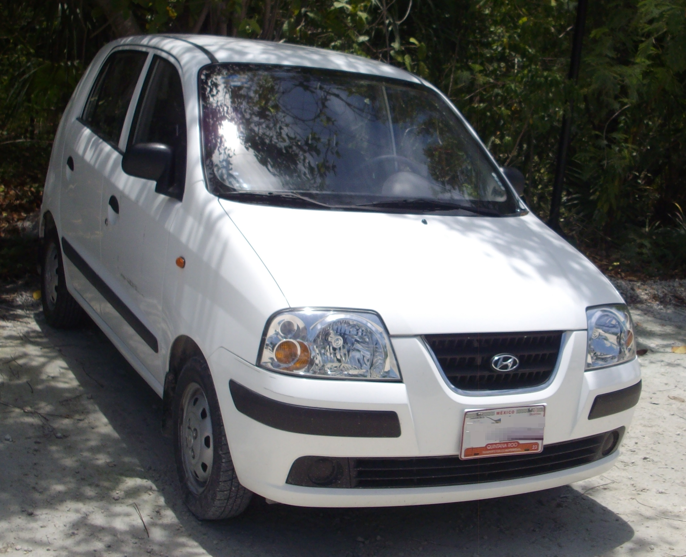 Hyundai Atos By Dodge photographed in Quintana Roo, Mexico.